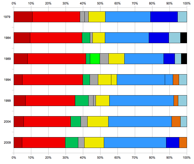 Chart of the results of each European election by their group in Parliament, intended to replace Image:Ep1979-2004.png. In order to allow the chart to be used on all wikis, the chart has no annotations in English. The chart has no exact percentages on it because exact percentages vary dependent on which source you're looking at: the problems inherent in assembling results from multiple member states, who supply results in different languages at different dates, using different methods, means that even reliable sources differ slightly when compared to each other. To get around this problem, the percentages depicted are based on the agreed average on English Wikipedia. The colours follow the convention established on English Wikipedia and are coloured to the following schema: Conservative/Christian Democrat (CD,EPP (79-92),EPP (92-99),FE,EPP-ED) Conservatives only (C,ED,ECR) Social Democrats (S,SOC,PES,S&D) Communist/Far-Left (COM,LU,EUL,EUL/NGL) Liberal/Centrist (L,LD,LDR,ERA,ELDR,ALDE) National Conservatives (UDE,EPD,EDA,UFE,UEN) Greens only (G) Green/Regionalist (RBW (84-89),RBW (89-94),G/EFA) Heterogeneous (CDI,TGI) Independents (NI) Eurosceptics (EN,I-EN,EDD,IND/DEM,EFD) Far-Right Nationalist (ER,DR,ITS) For details on English Wikipedia conventions and the groups, see Political groups of the European Parliament.